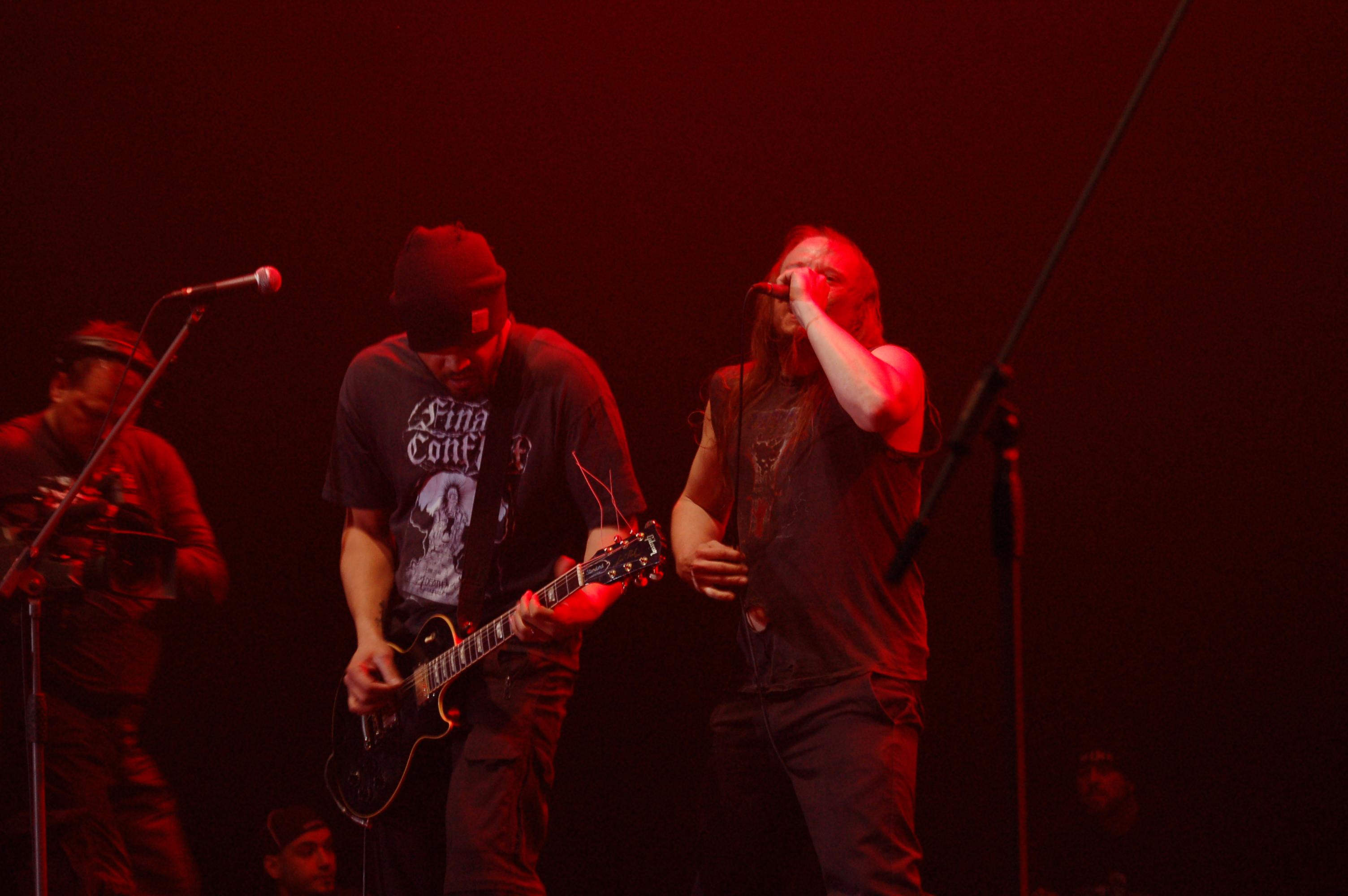 Metal band Entombed during Metalmania 2007 festival